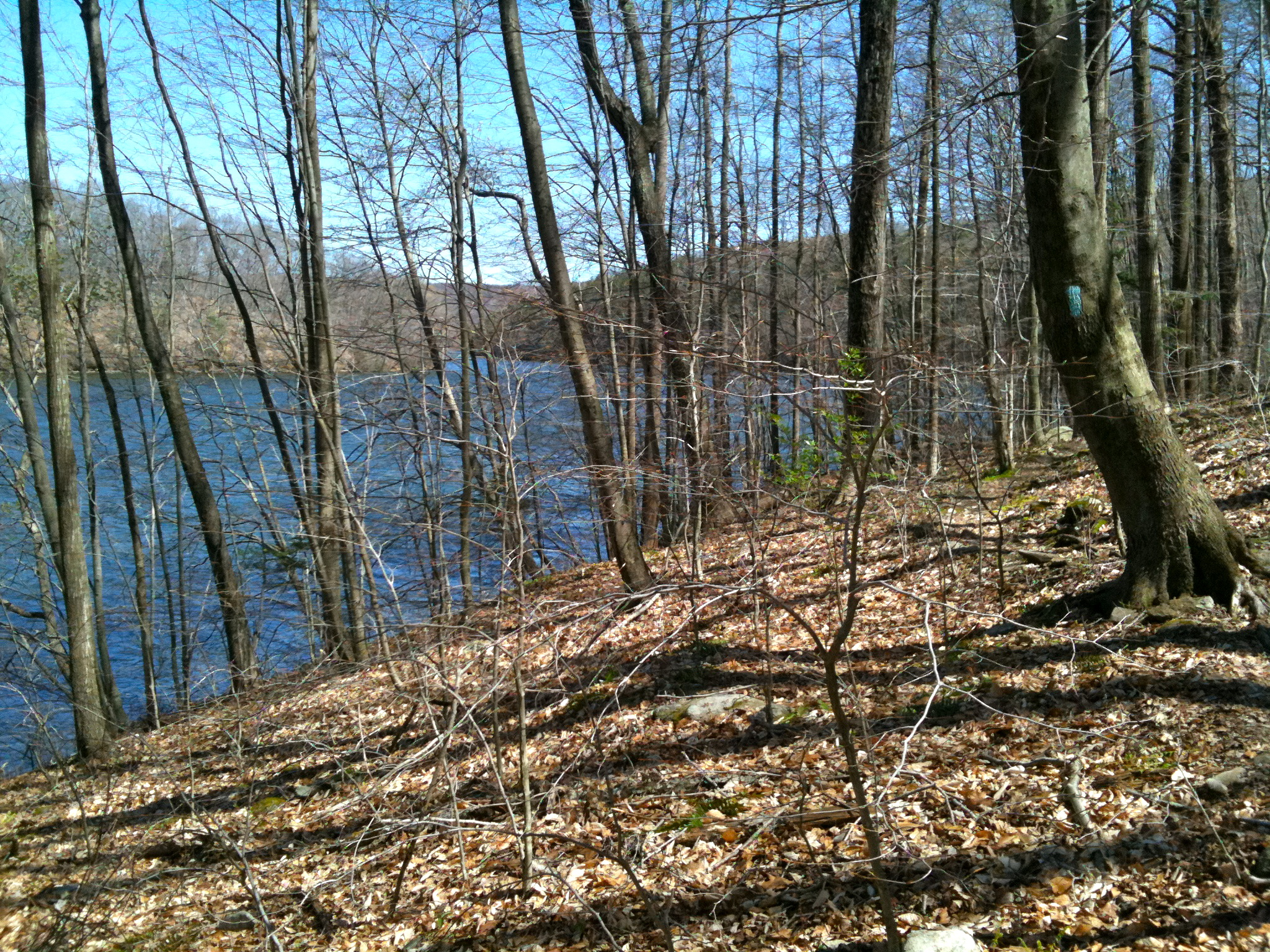 Lillinonah Trail. Blue-Blazed CFPA foot path which circles the upper Paugussett State Forest (and Lake Lillinonah/Housatonic River) in Newtown, CT. Northern Lake Lillionah from Lillinonah Trail. Blue-Blazed CFPA foot path which circles the upper Paugussett State Forest (and Lake Lillinonah/Housatonic River) in Newtown, CT.